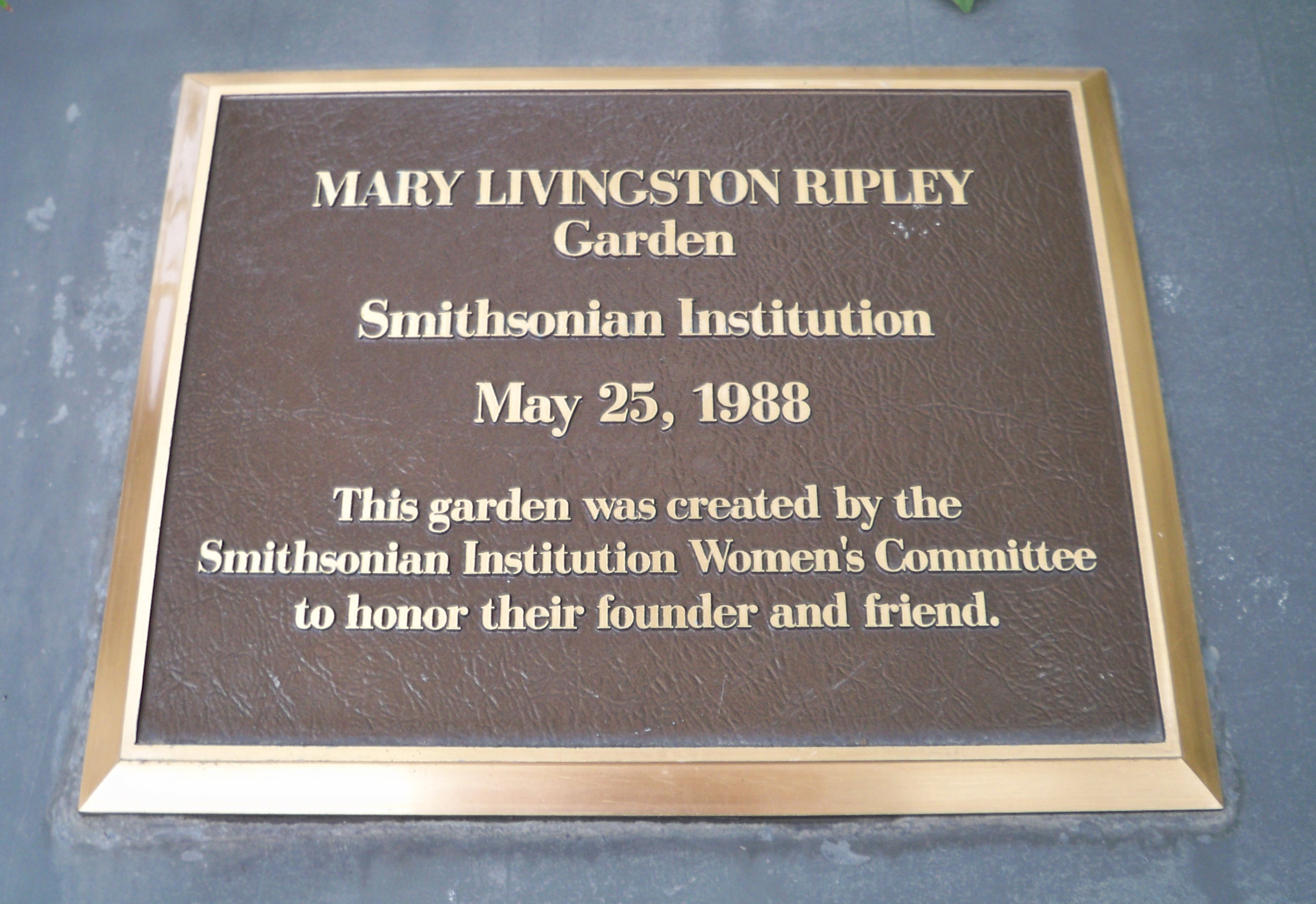 Mary Livingstone Ripley Park commemorative plaque dedicating the park between the Hirshhorn Museum and Sculpture Garden and the Arts and Industries Building.